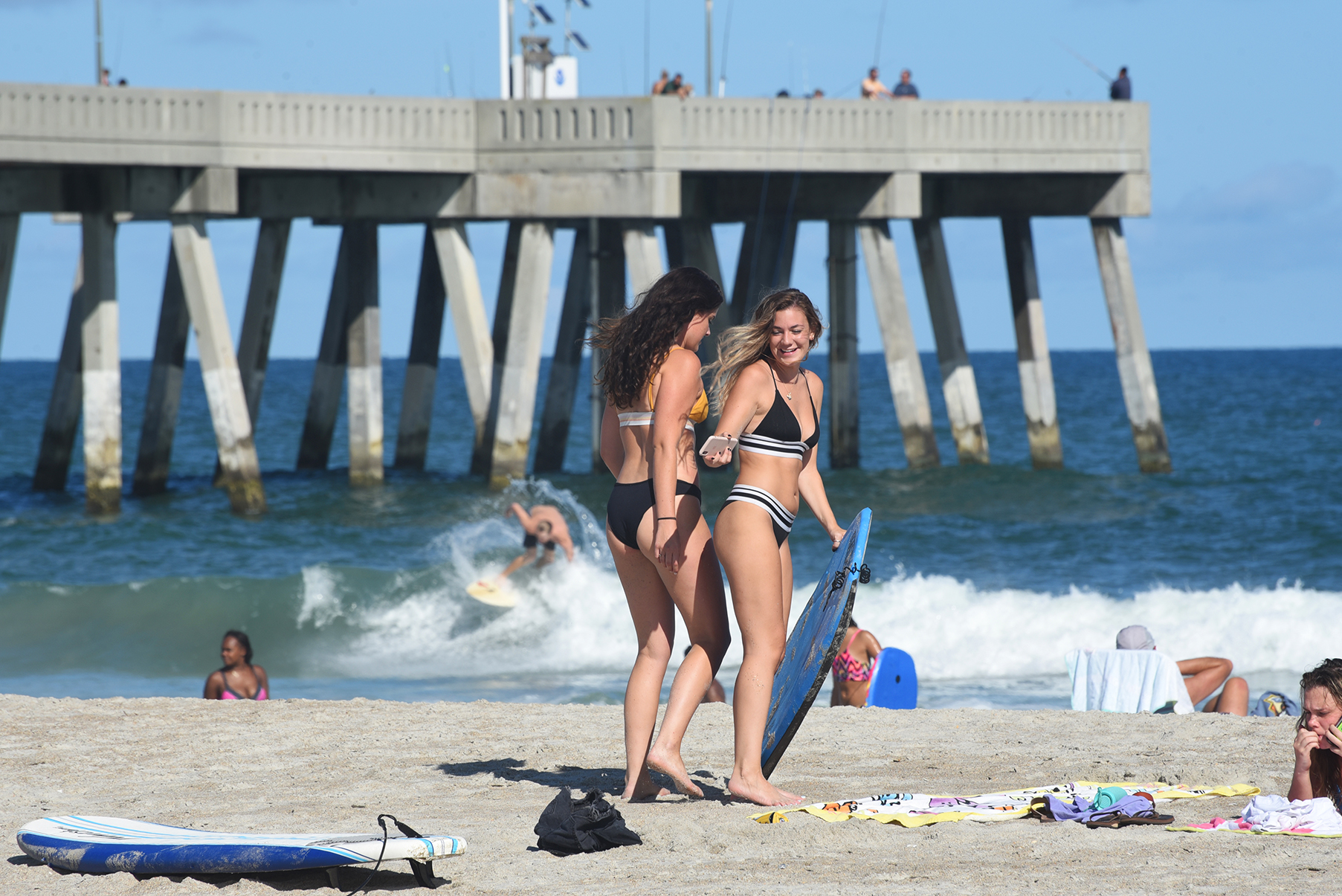 Wrightsville Beach is a popular spot for young people and students of UNC-Wilmington